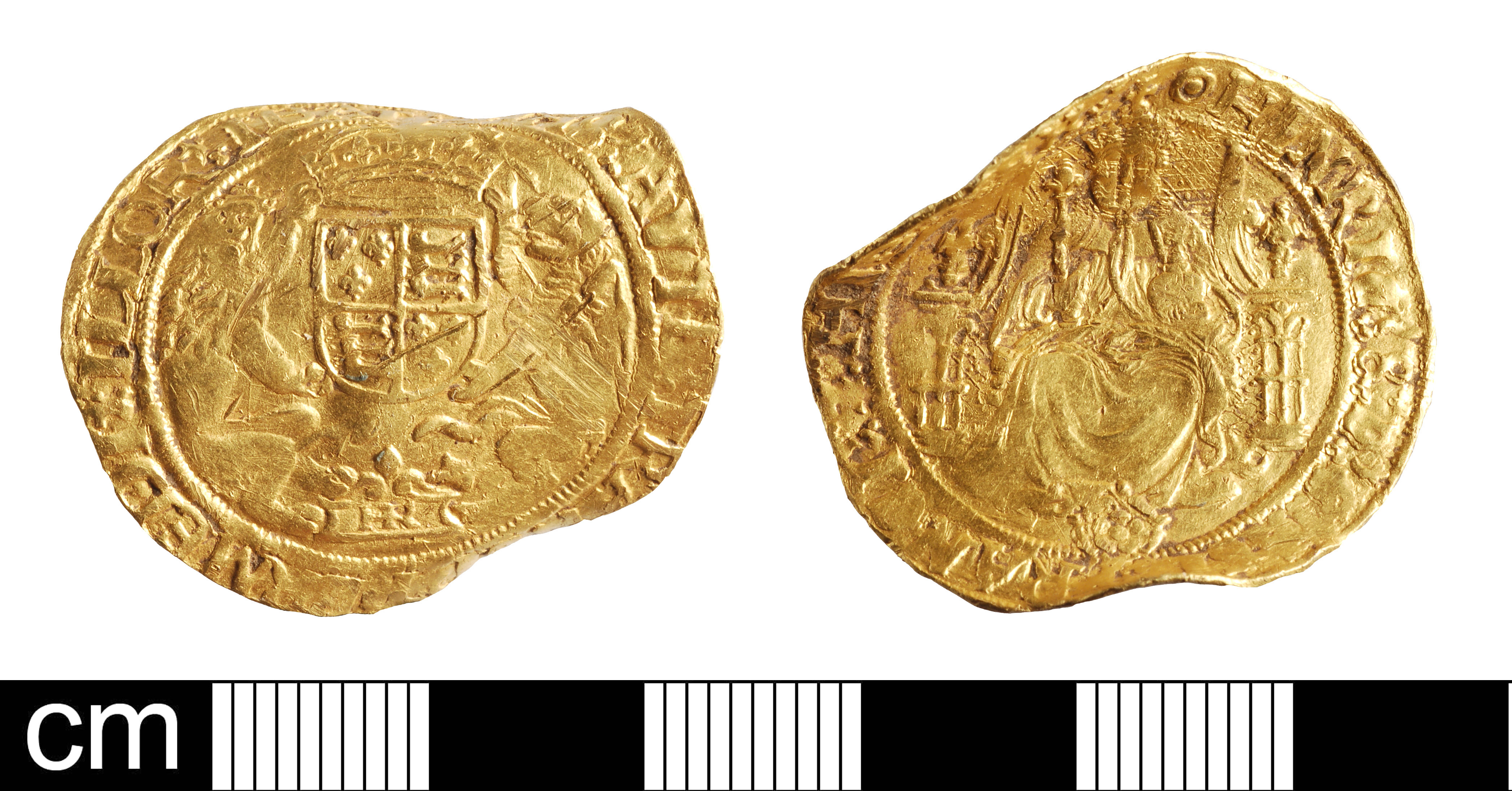 A gold half sovereign of Henry VIII. Third Coinage, Tower mint, struck 1544 - 1547 (pellet-in-annulet mintmark). Bent and slightly worn in places. Diameter: 30.2mm; thickness: 0.3mm; weight: 6.06g.